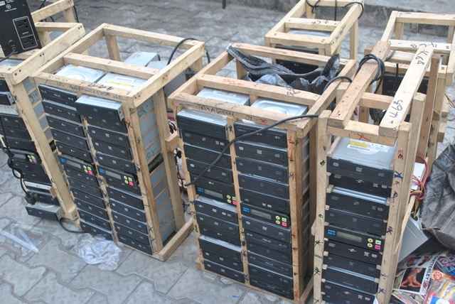 DVD DUPLICATING EQUIPMENT SEIZED BY NIGERIAN COPYRIGHT COMMISSION DURING ITS ANTI-PIRACY OPERATIONS